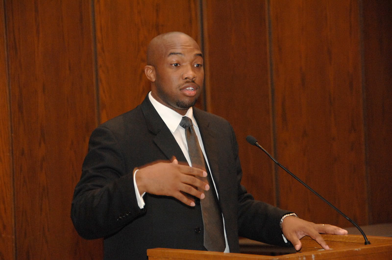 Rahman Harper in 2007